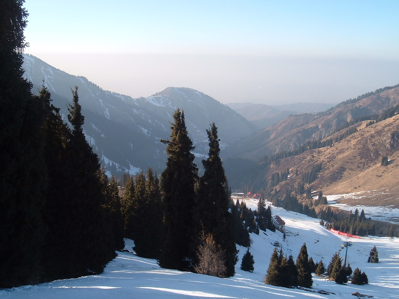 Játi Þór Mikjálsson - 16.02.2007 Almaty, Kasakstan